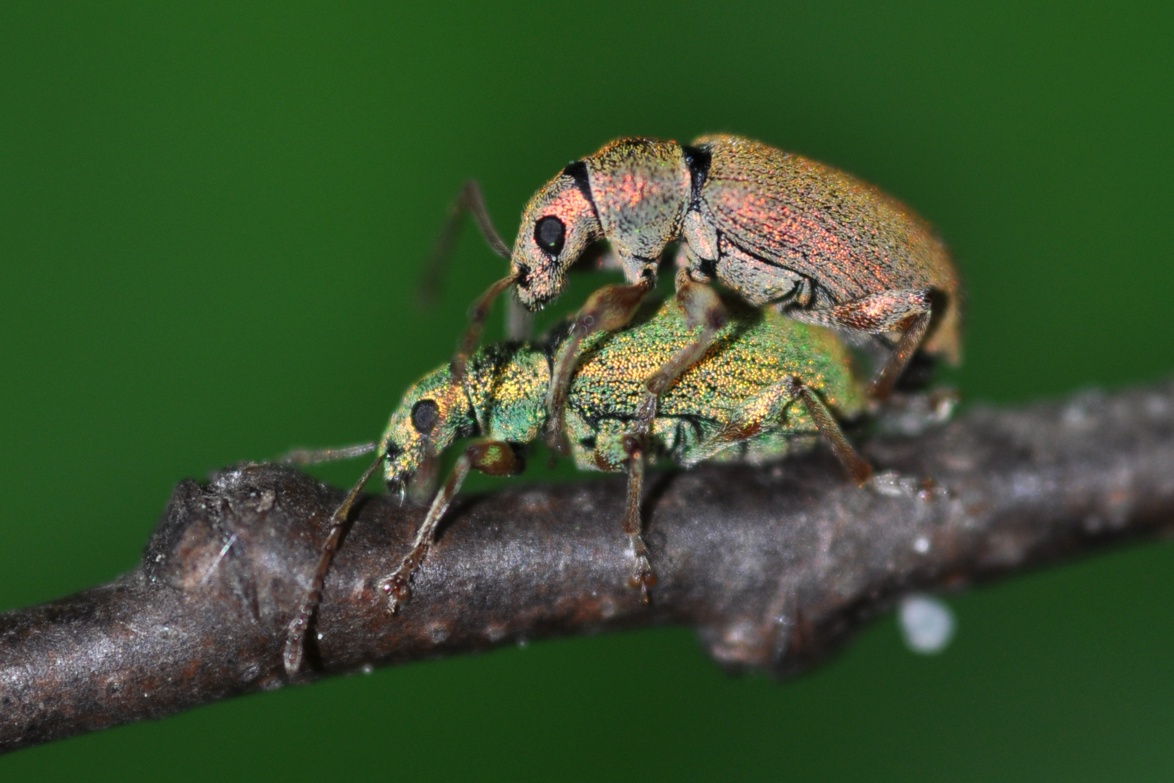 Silver-green leaf Weevil Phyllobius argentatus mating in Bahrenfeld, Hamburg.